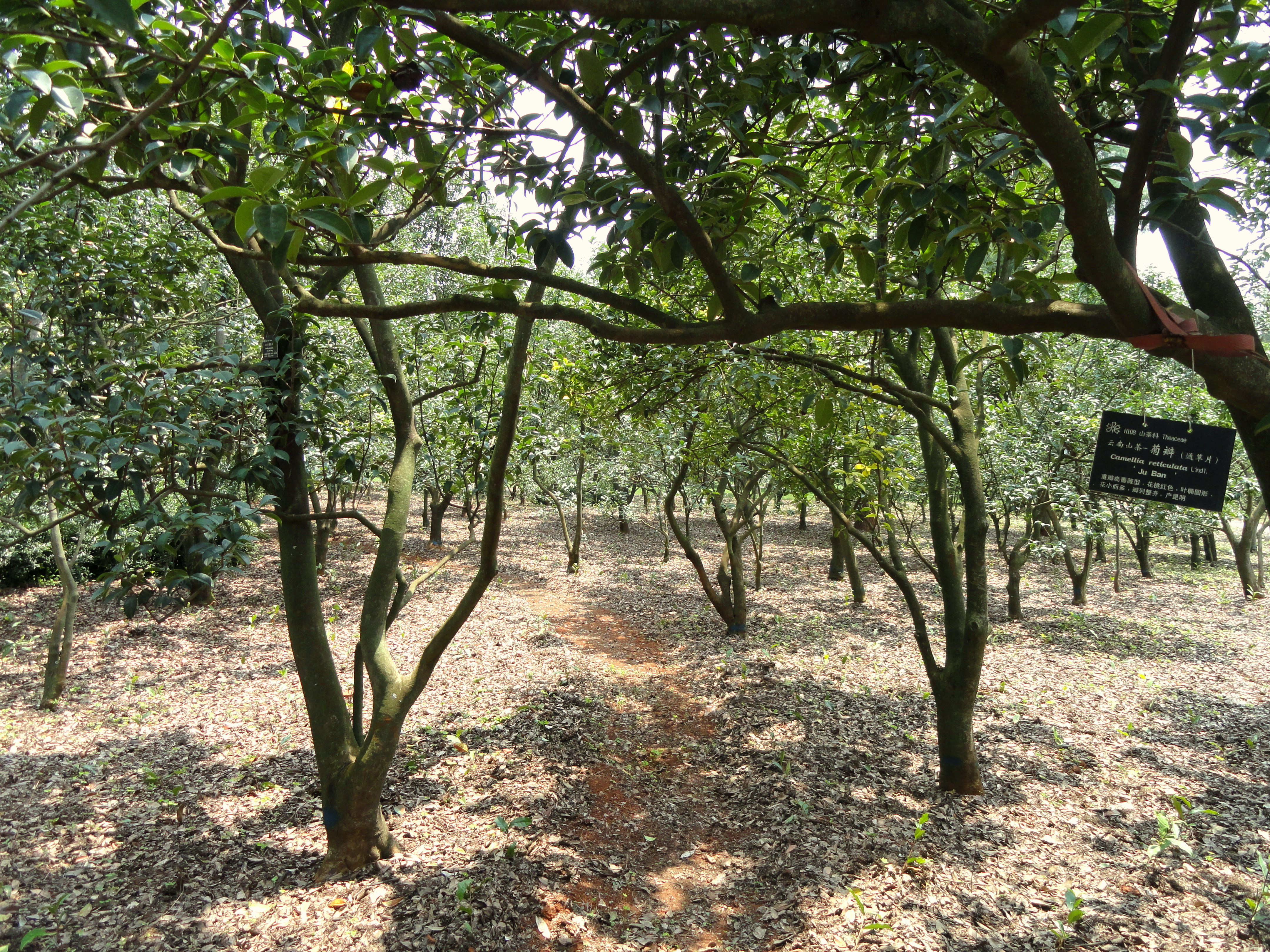 Plant specimen in the Kunming Botanical Garden, Kunming, Yunnan, China.